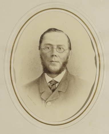 Portrait of the Finnish mineralogist Henrik Johan Holmberg (1818–1864).